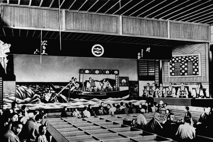 The November 1943 Mitama Bunraku production of Genpei Nububiki bo Taki at Meiji-za theater.